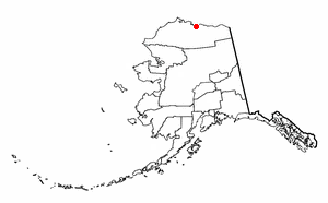 Adapted from Wikipedia's AK borough maps by Seth Ilys.